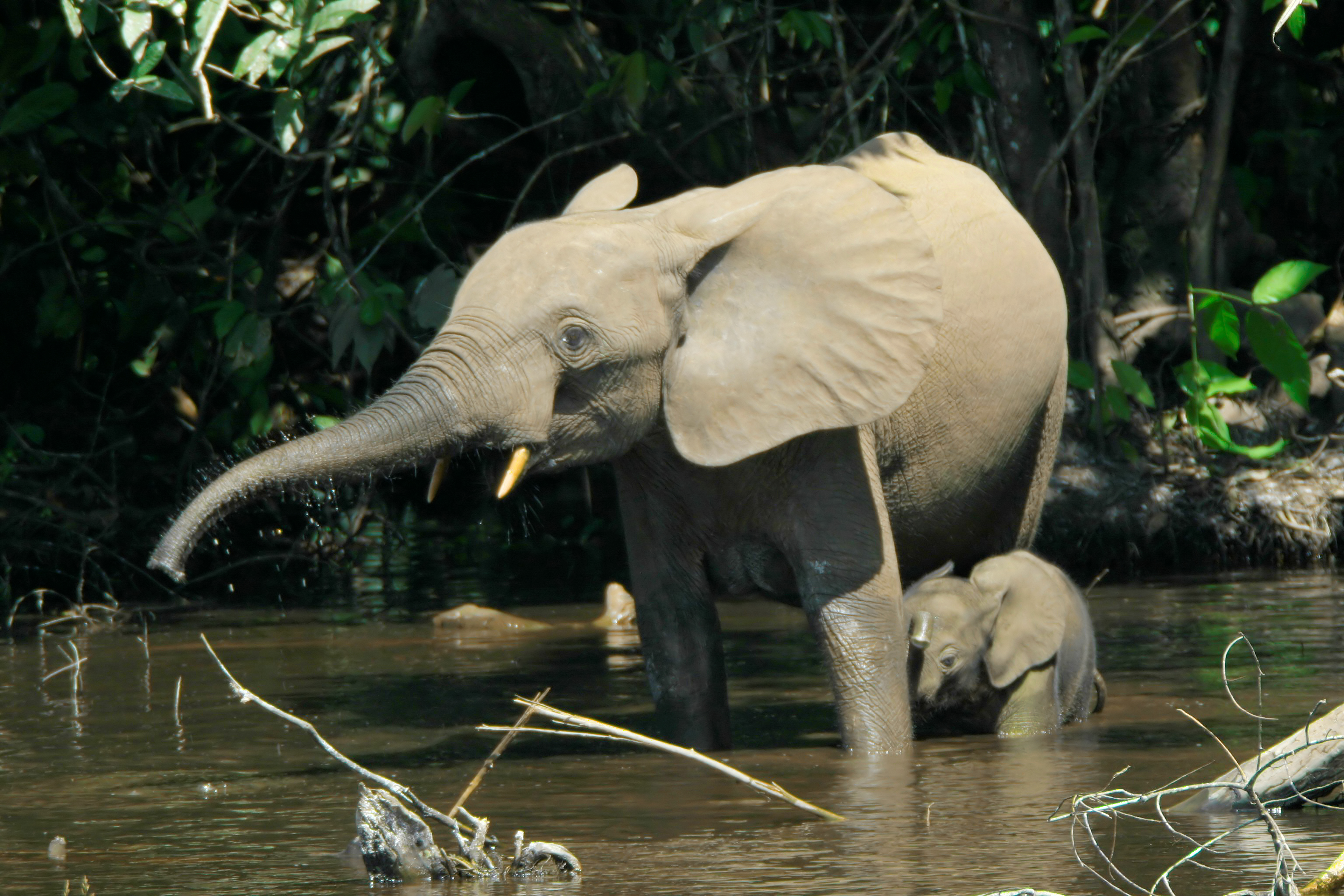 Forest elephants (Loxodonta cyclotis) in the swamp Mbeli Bai, Nouabalé-Ndoki National Park, Congo.